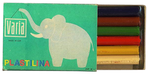 Plastilina plasticine from VEB Varia-Chemische Fabrik Mügeln from the GDR (East Germany)